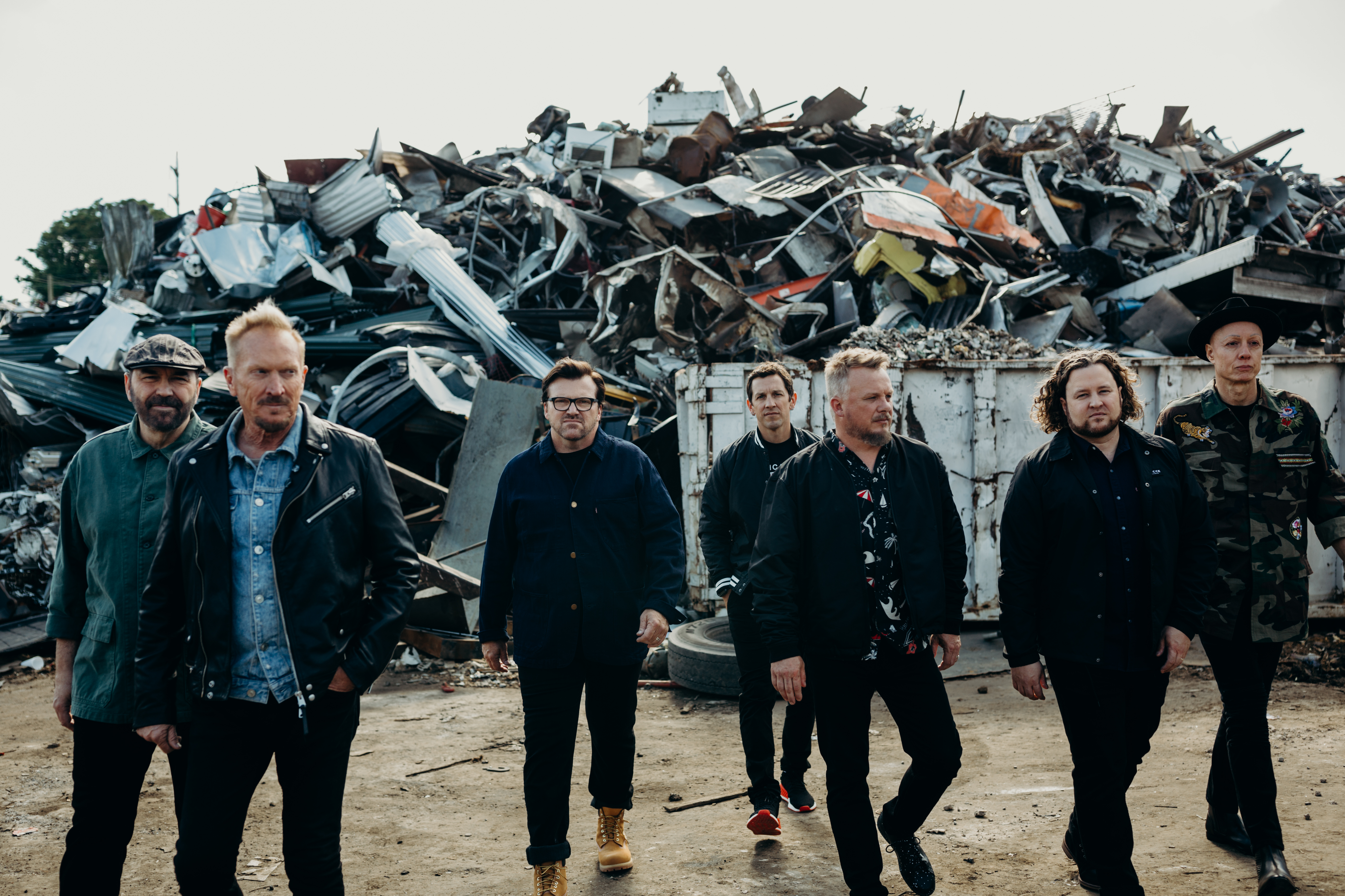 NewSong, photo credit: @sterlinggraves